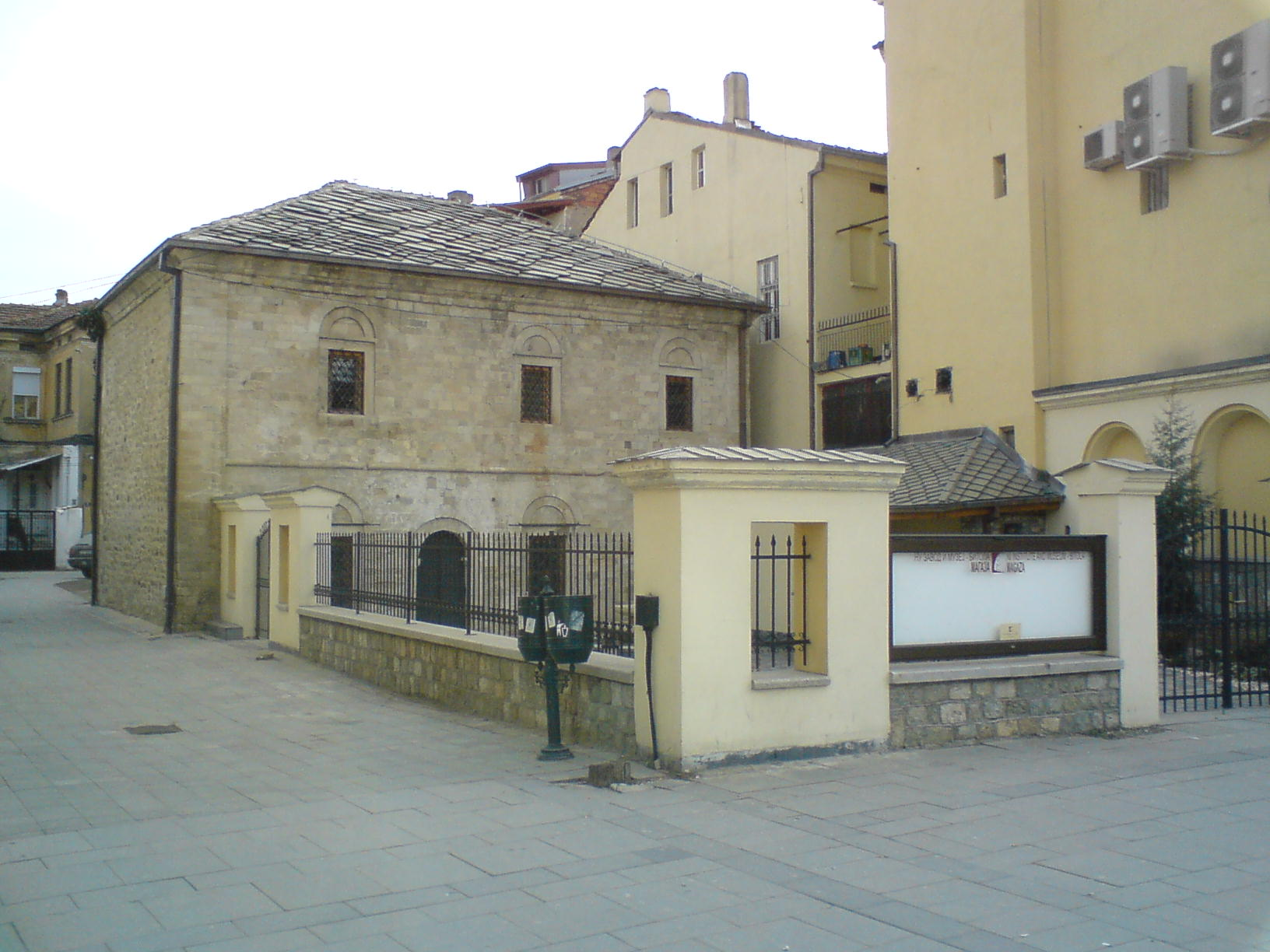 The Magaza in the center of Bitola